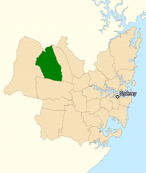 This image incorporates data that is: © Commonwealth of Australia (Australian Electoral Commission) 2009 Division of Chifley 2010